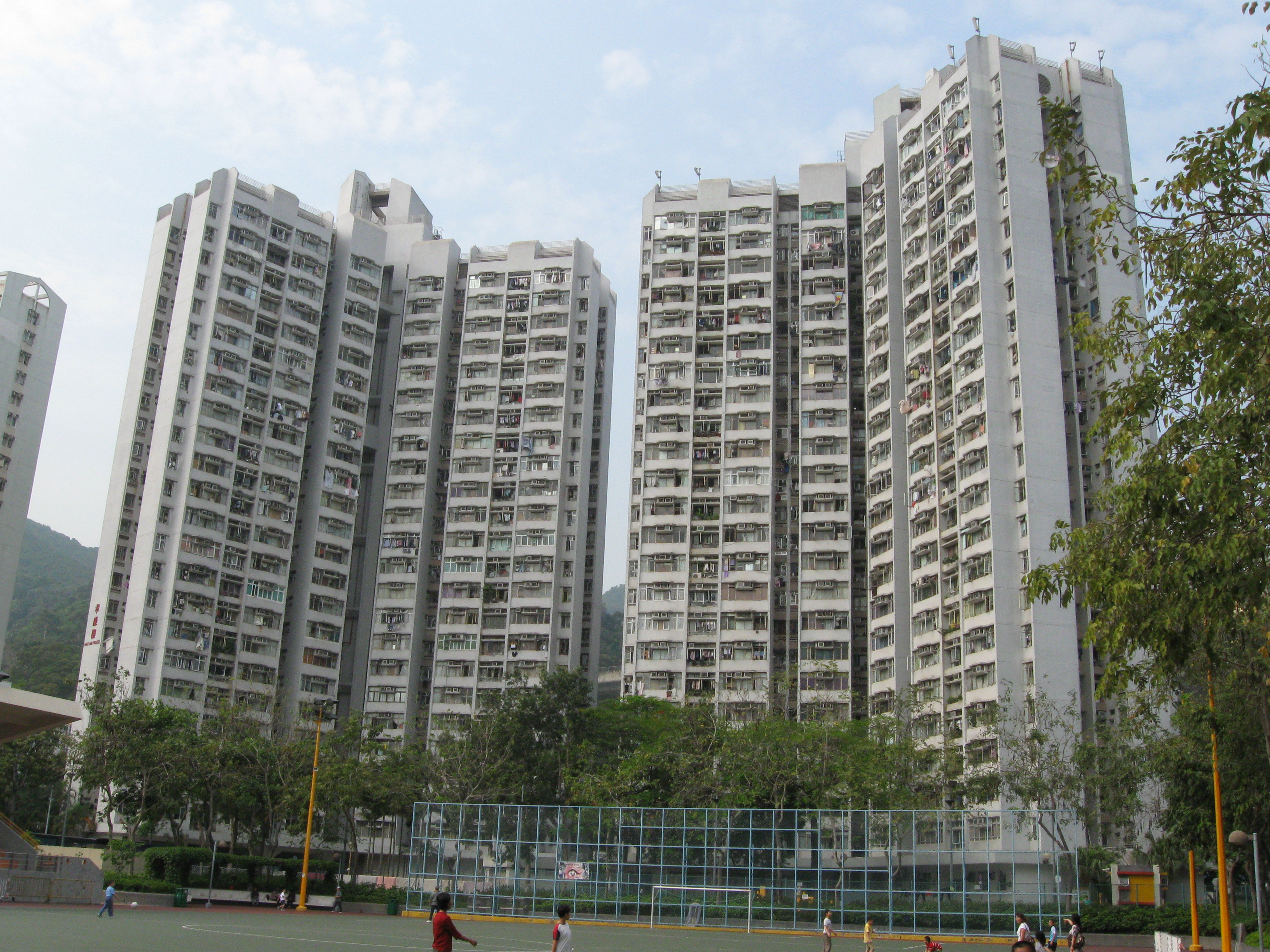 Hau Lim House and Hau Chi House, Lei Cheng Uk Estate, Sham Shui Po, Kowloon, Hong Kong 中文（香港）: 香港九龍深水埗李鄭屋邨孝廉樓及孝慈樓